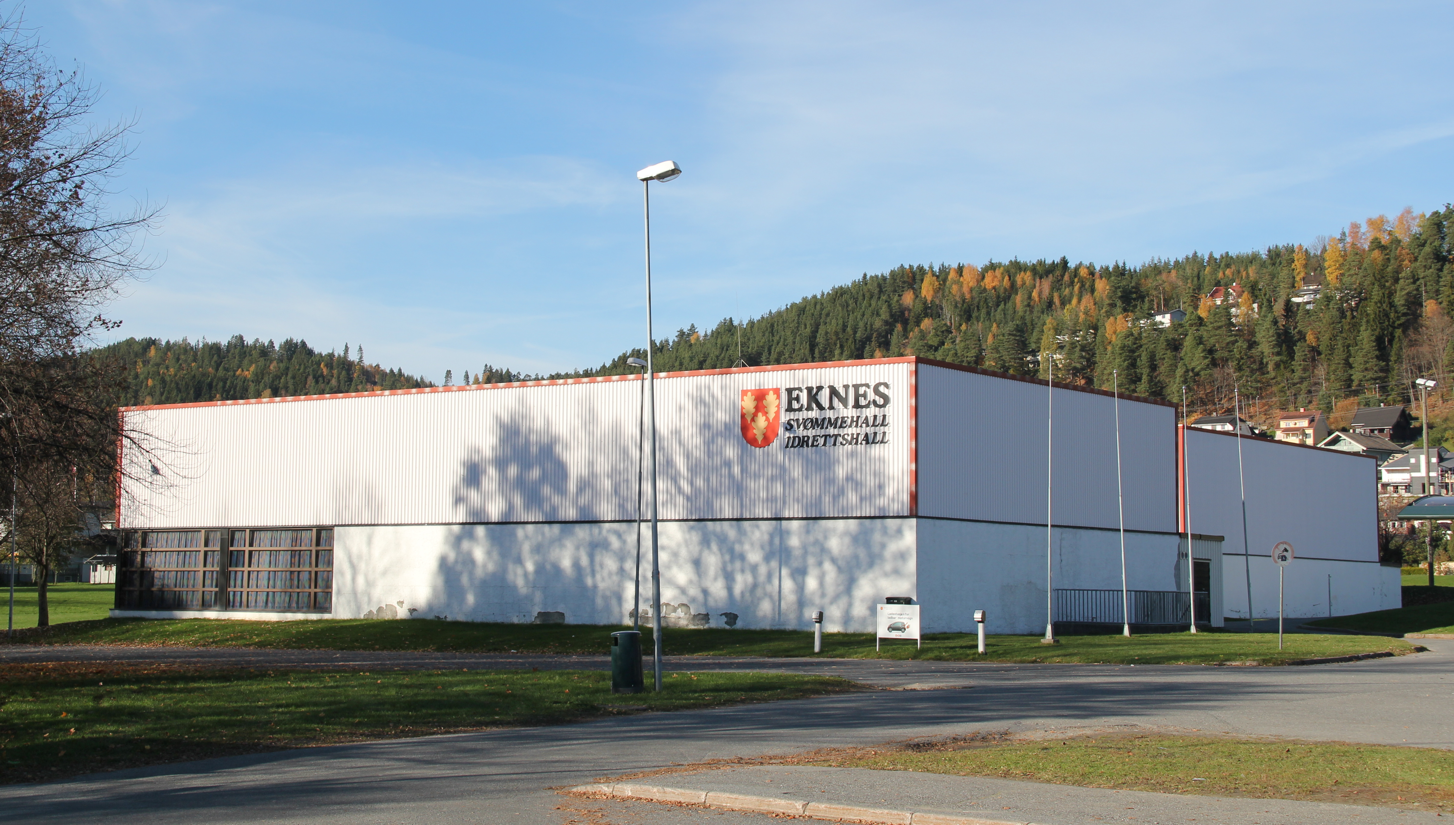 Eknes idrettshall / sportscentre